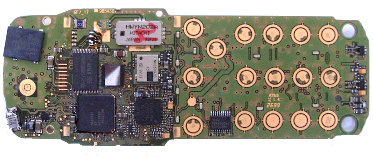 A printed circuit board inside a mobile phone